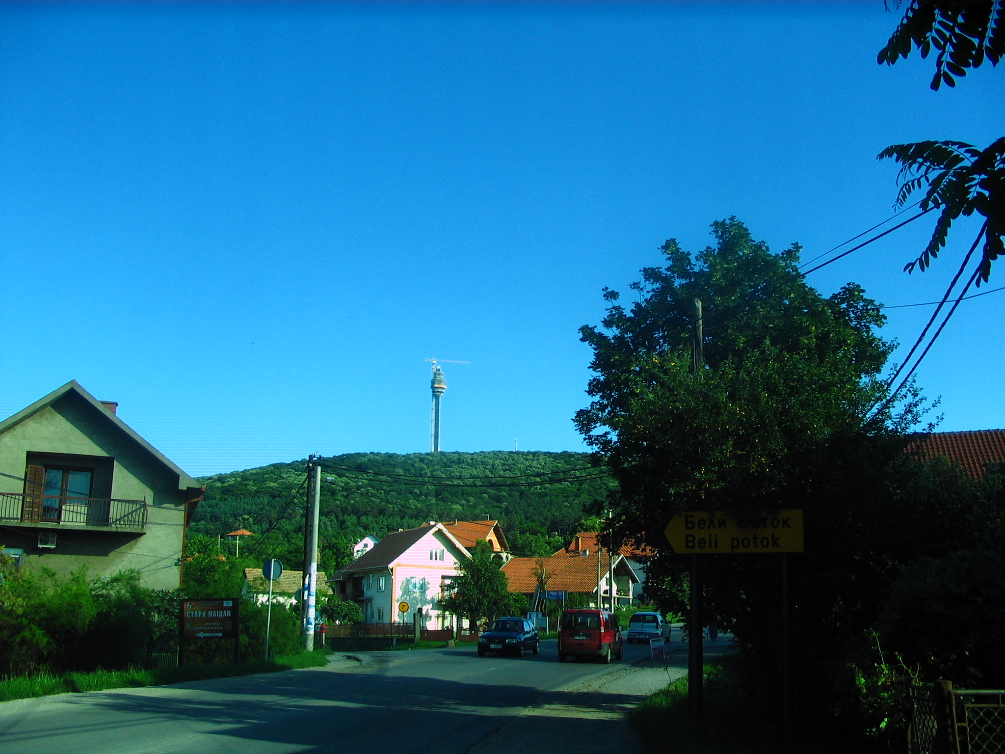 Avala Tower under construction.